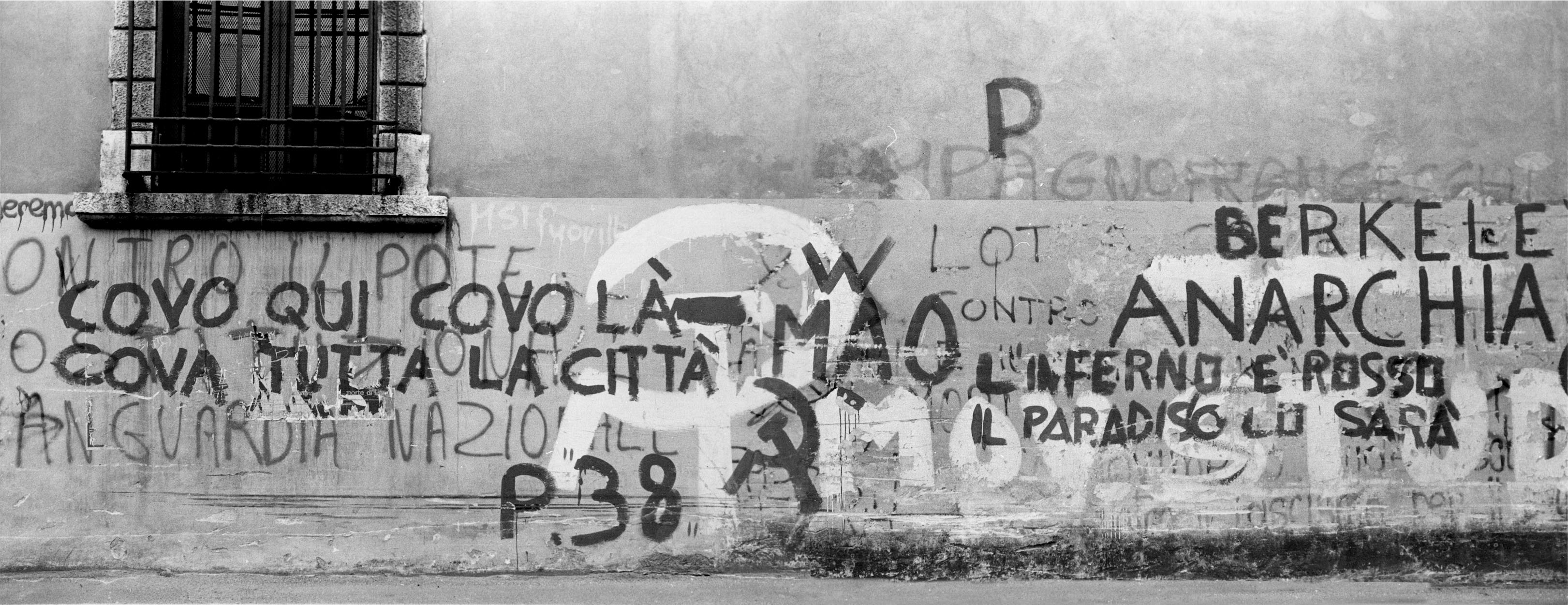 wall script in Brescia Center in 70 years